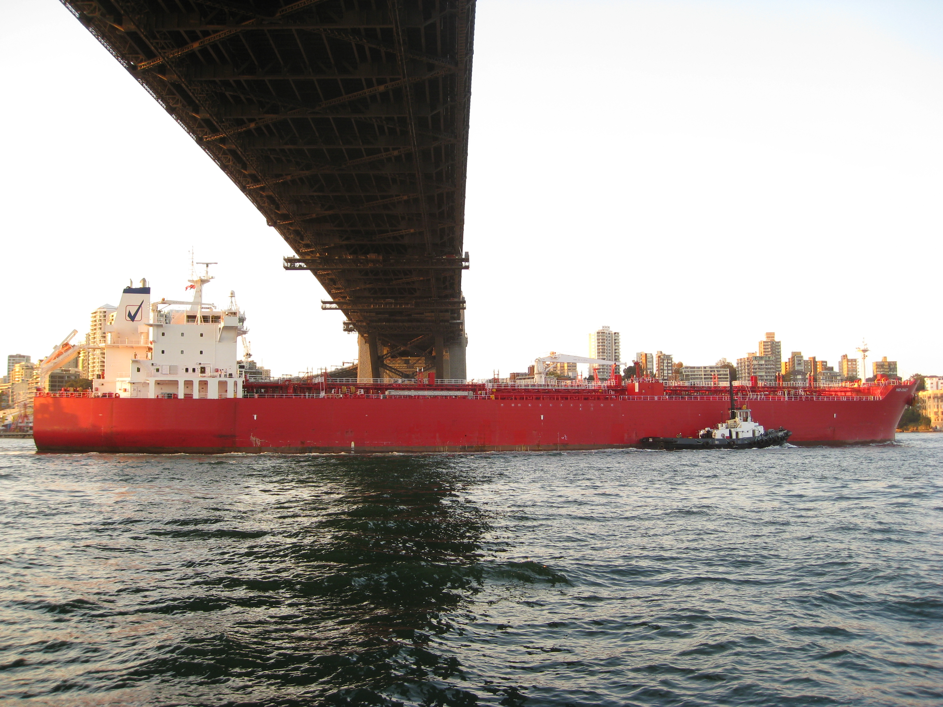 Iver Exact Double Hull Oil & Chemical Tanker, Builder : Hyundai Mipo, S. Korea Yard number : 309 Year built : 2007 Flag : The Netherlands Port of Registry : Breskens IMO number : 9307982 i090508 141